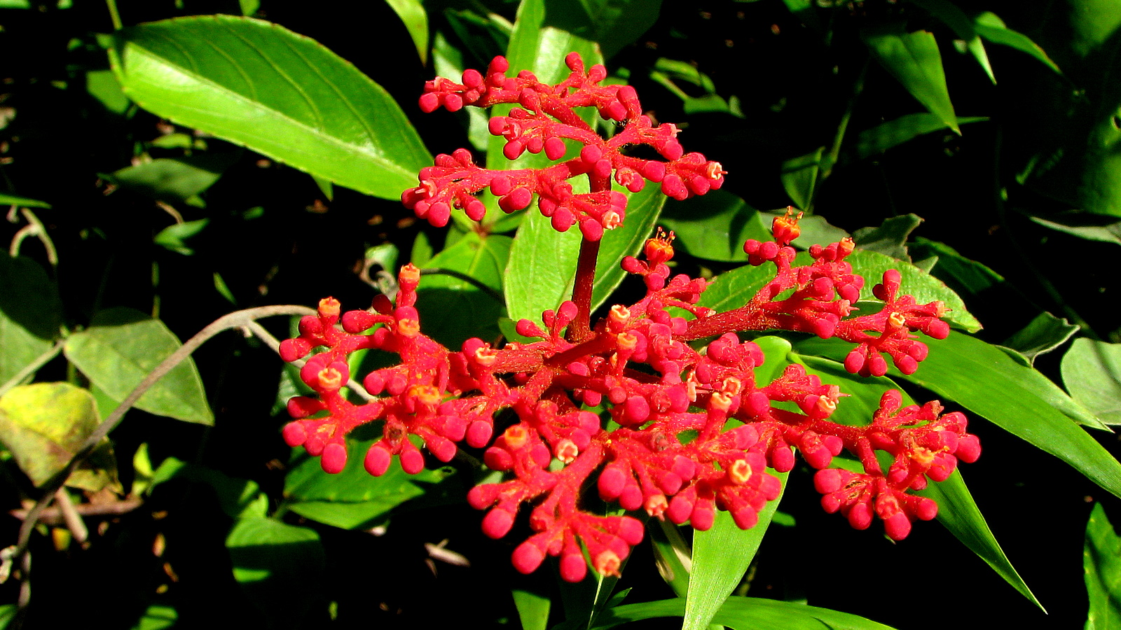 Flowers of Cissus erosa